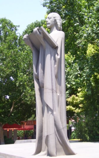 Armen Tigranyan statue in Yerevan, Armenia.